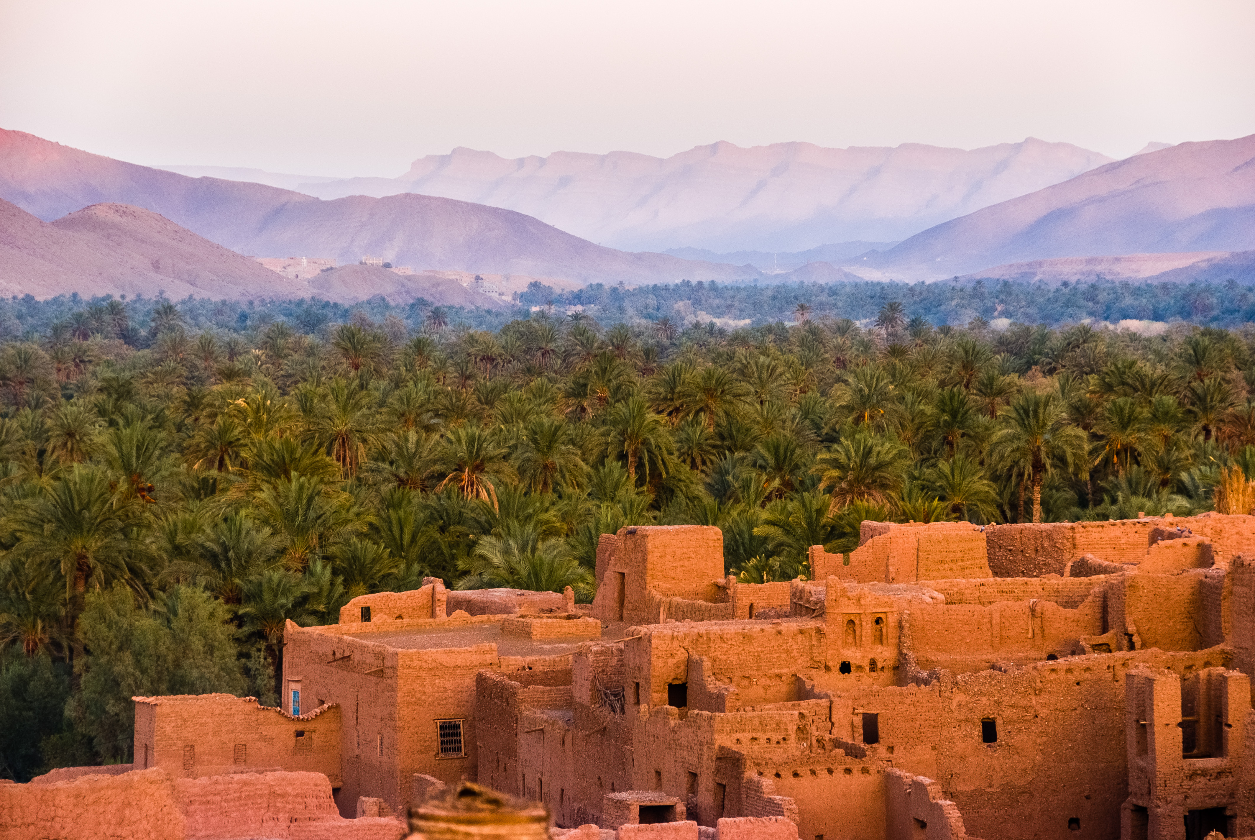 Tamnougalt, Morocco